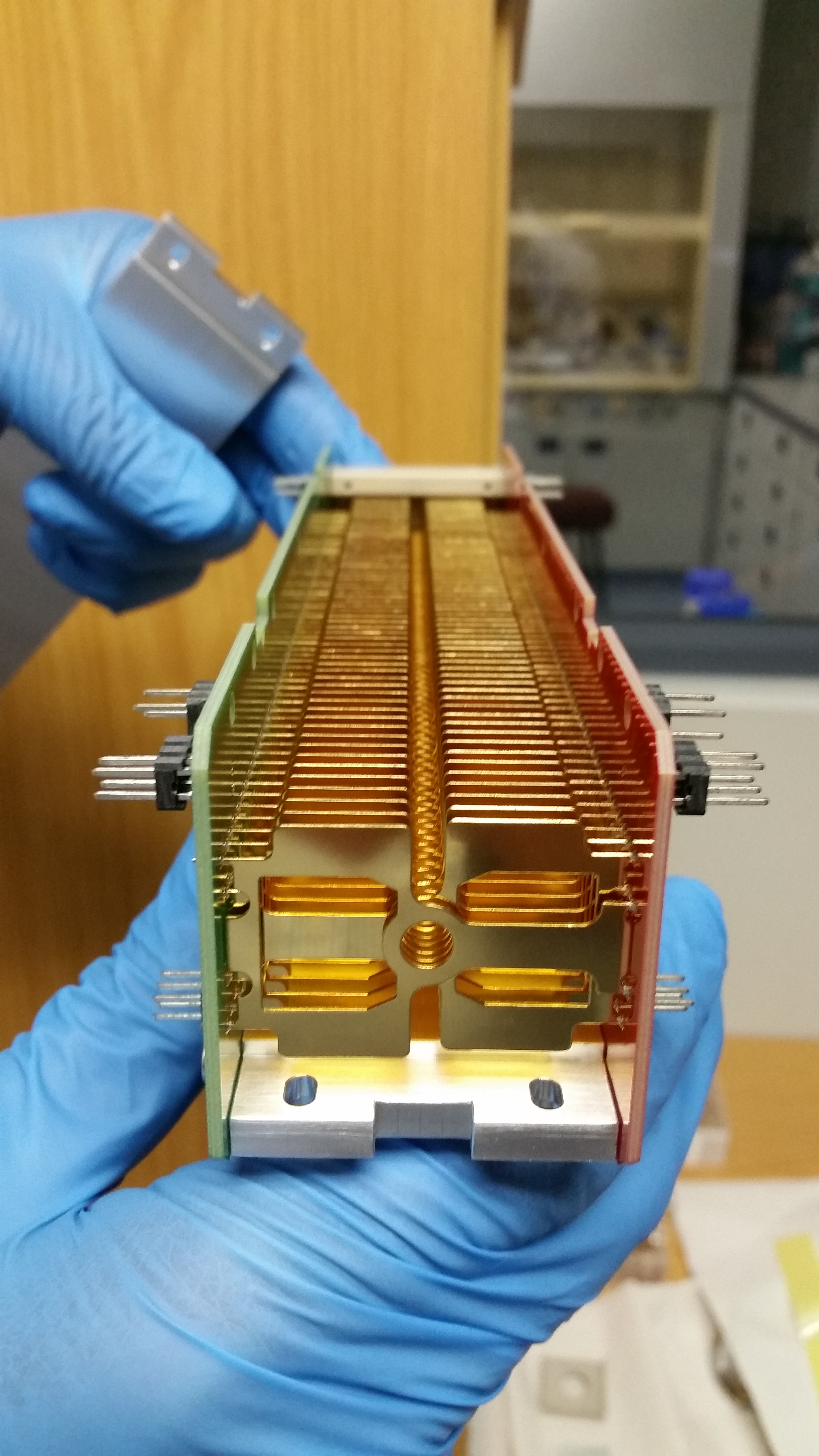 Collision cell from a T-Wave and ScanWave enabled Waters Xevo TQ-S Triple Quadrupole Mass Spectrometer